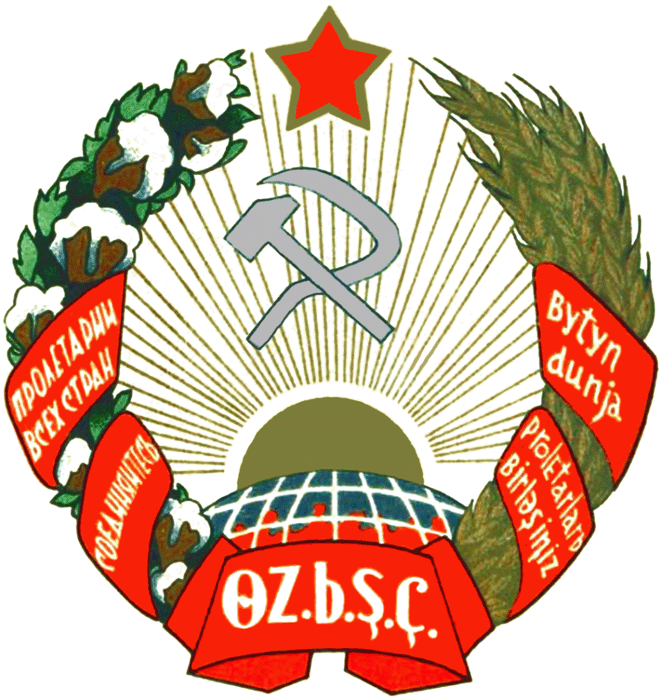 Coat of arms of the Uzbek SSR from 1931 until 1937.